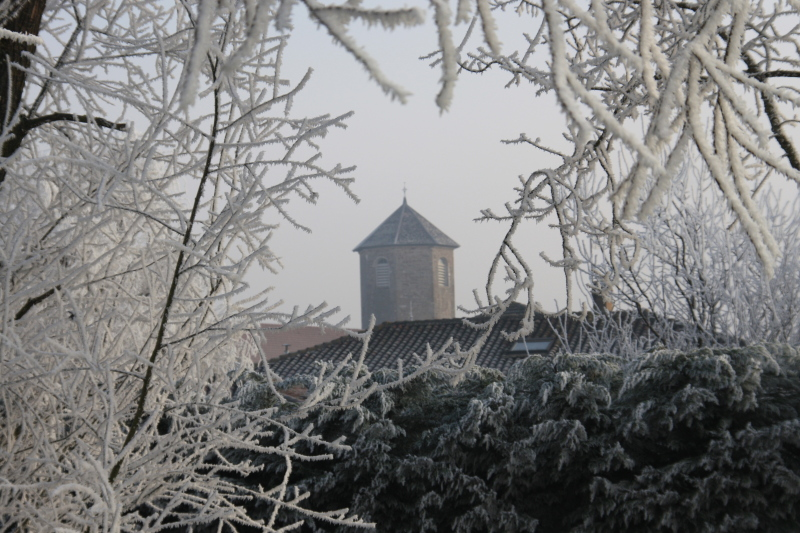 Church in Bage-la-ville (Ain, France) in the winter